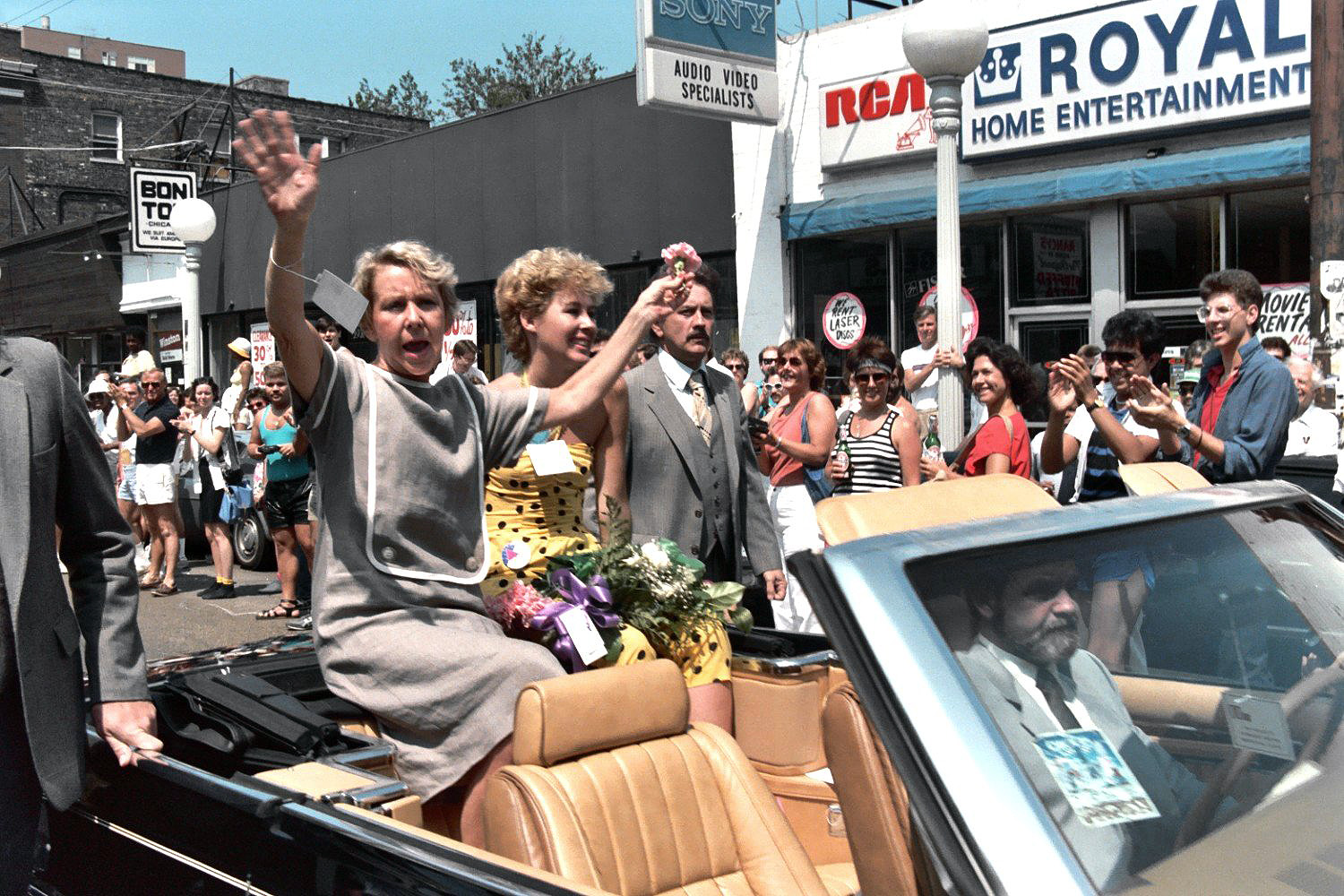 Former Chicago Mayor Jane Byrne, Chicago Gay Pride parade, June 1985